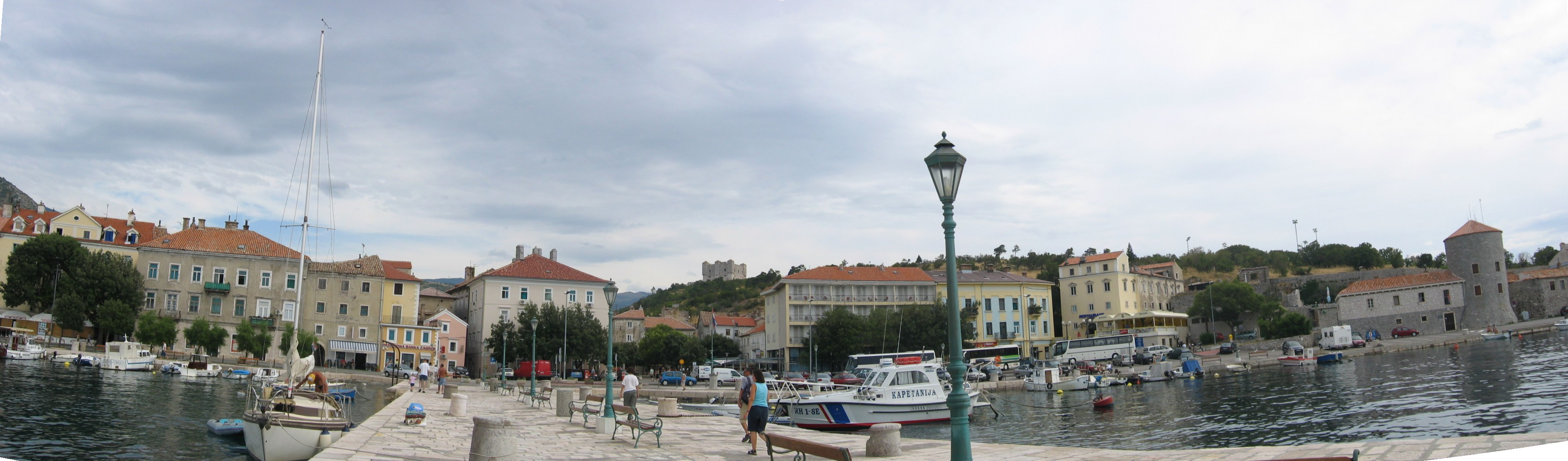 Senj harbor, Croatia, panorama with view to Nehaj castle